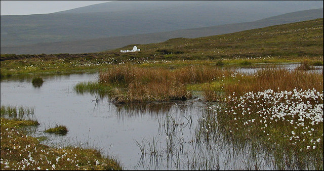 Betty Corrigal - RIP Across the bog to the grave site of Betty Corrigal.